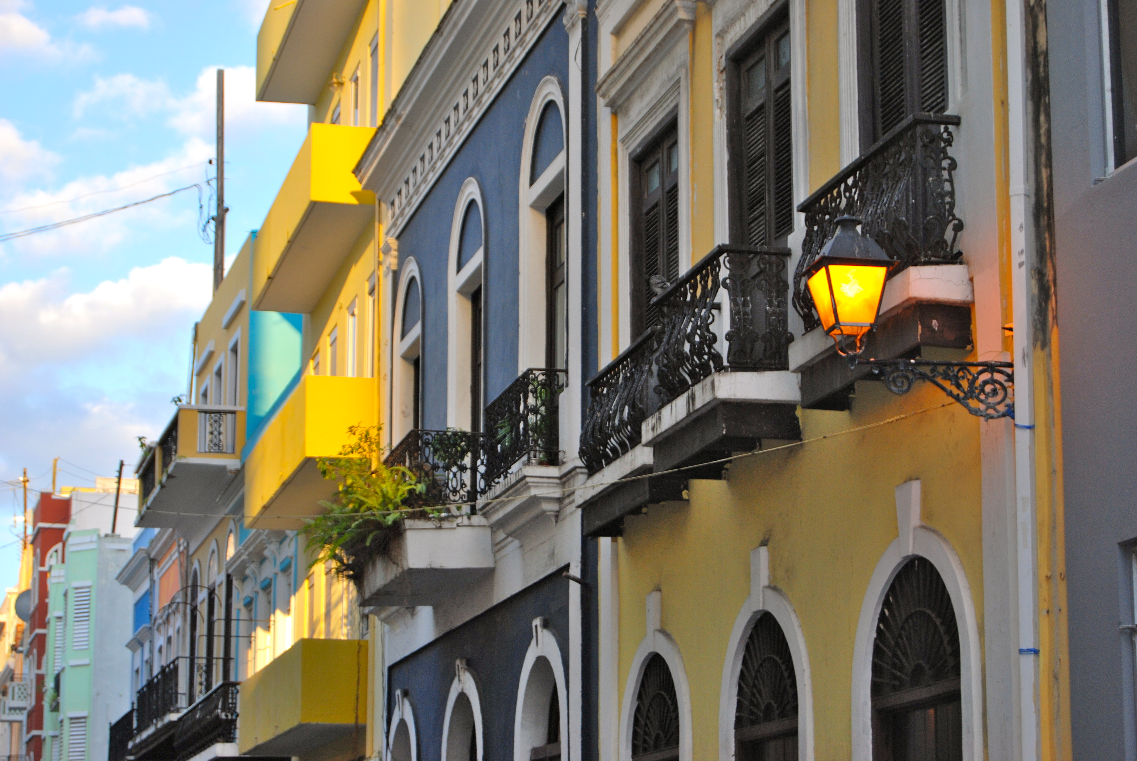 Old San Juan, the oldest section of San Juan, Puerto Rico